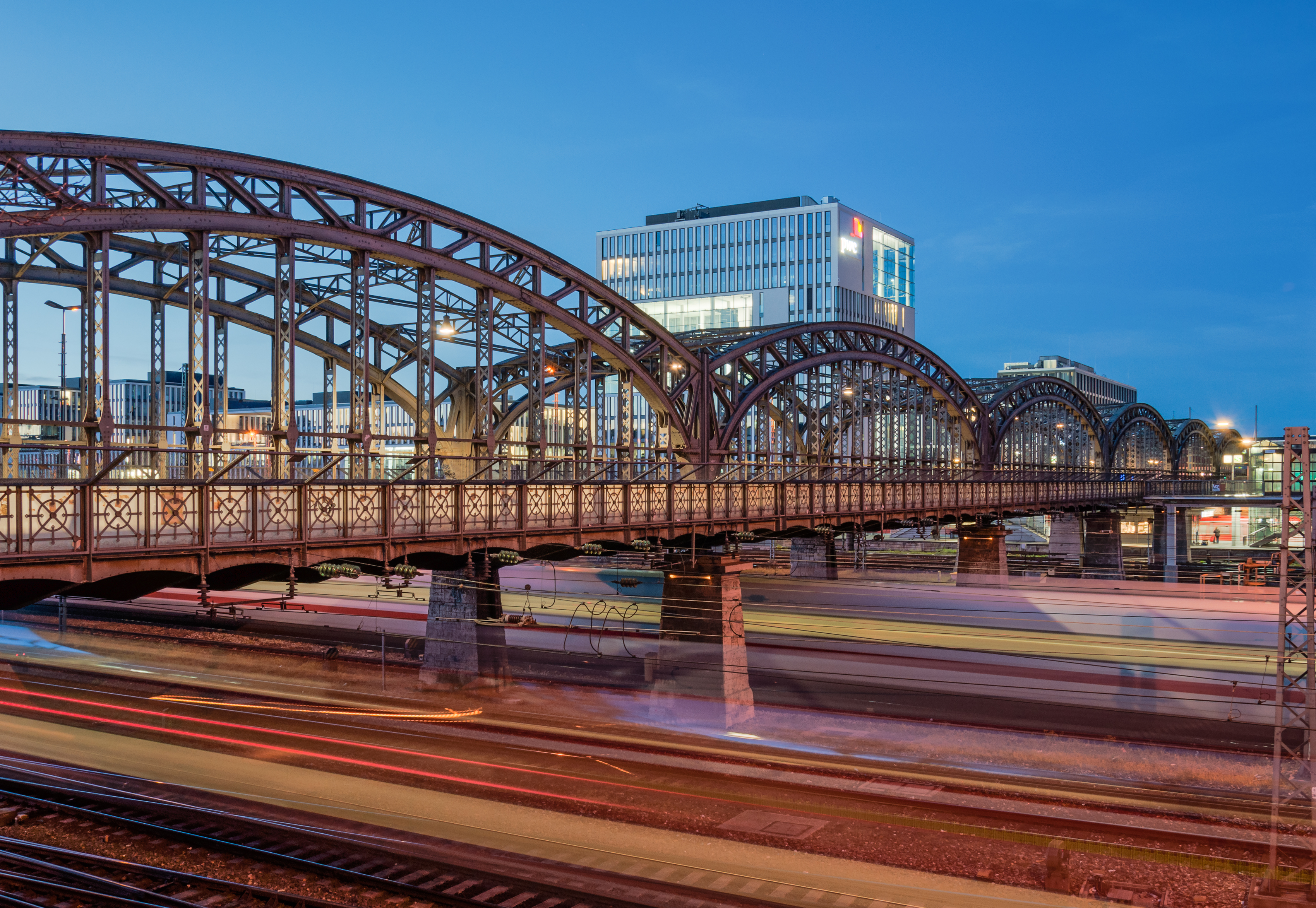 Hackerbrücke (Hacker bridge), Munich, Germany.